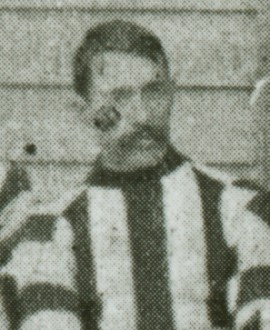 Photograph of Wilfred Fell in 1899.